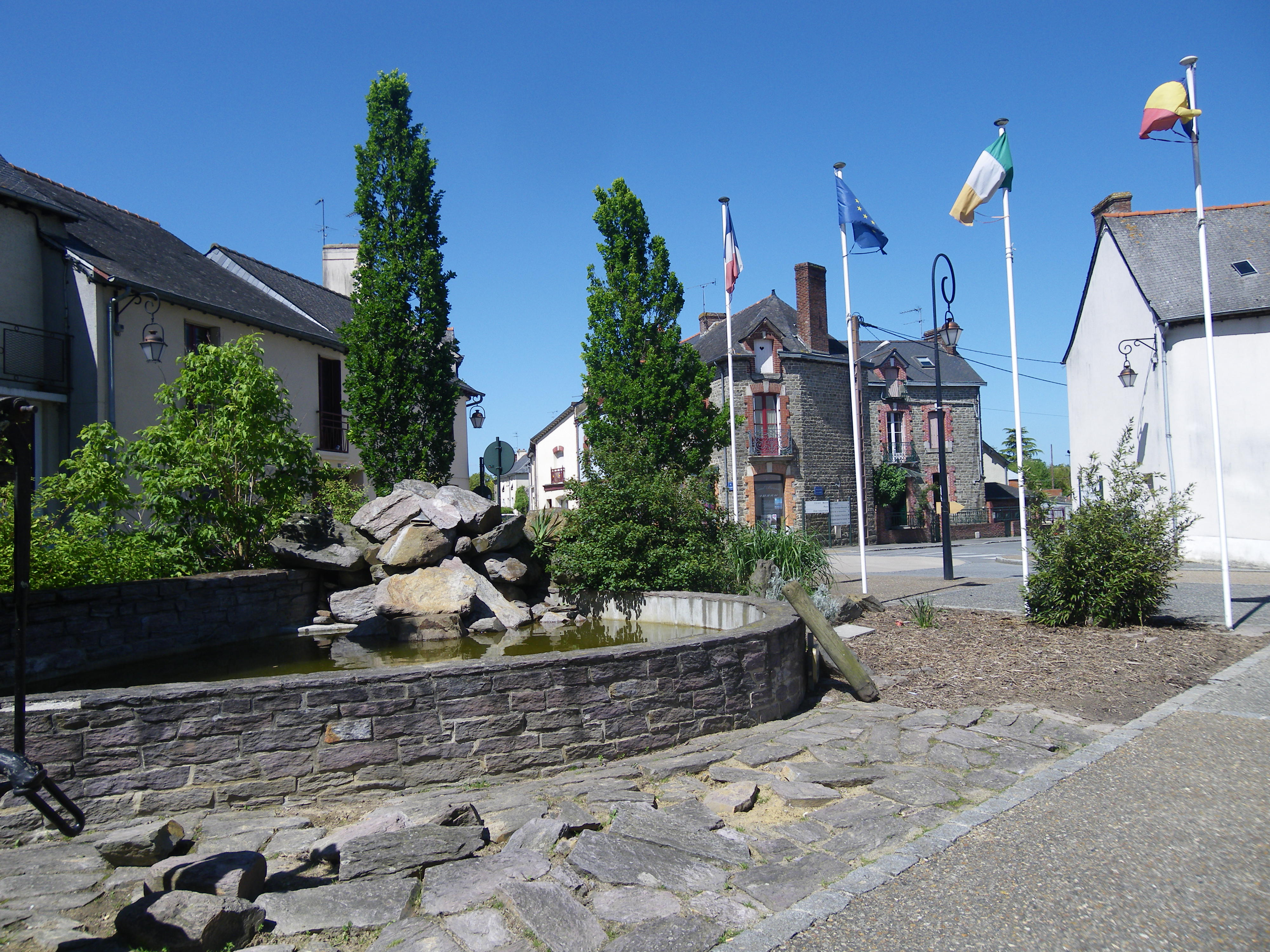 corps-nuds